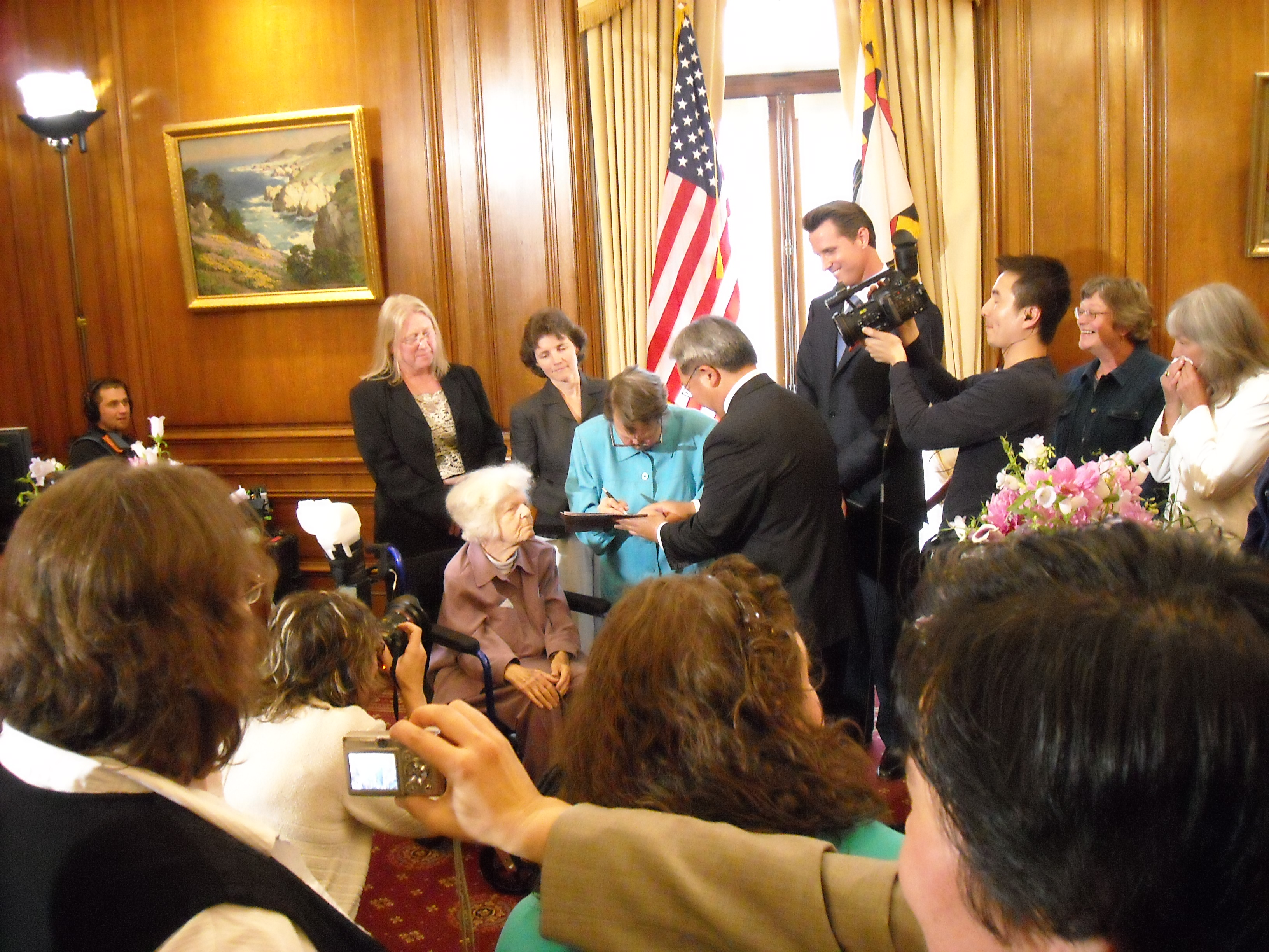 Wedding of Del Martin and Phyllis Lyon in San Francisco CA, City Hall by Mayor Gavin Newsom. This is the first same sex marriage performed in SF after the ban was struck down by the California Supreme Court.